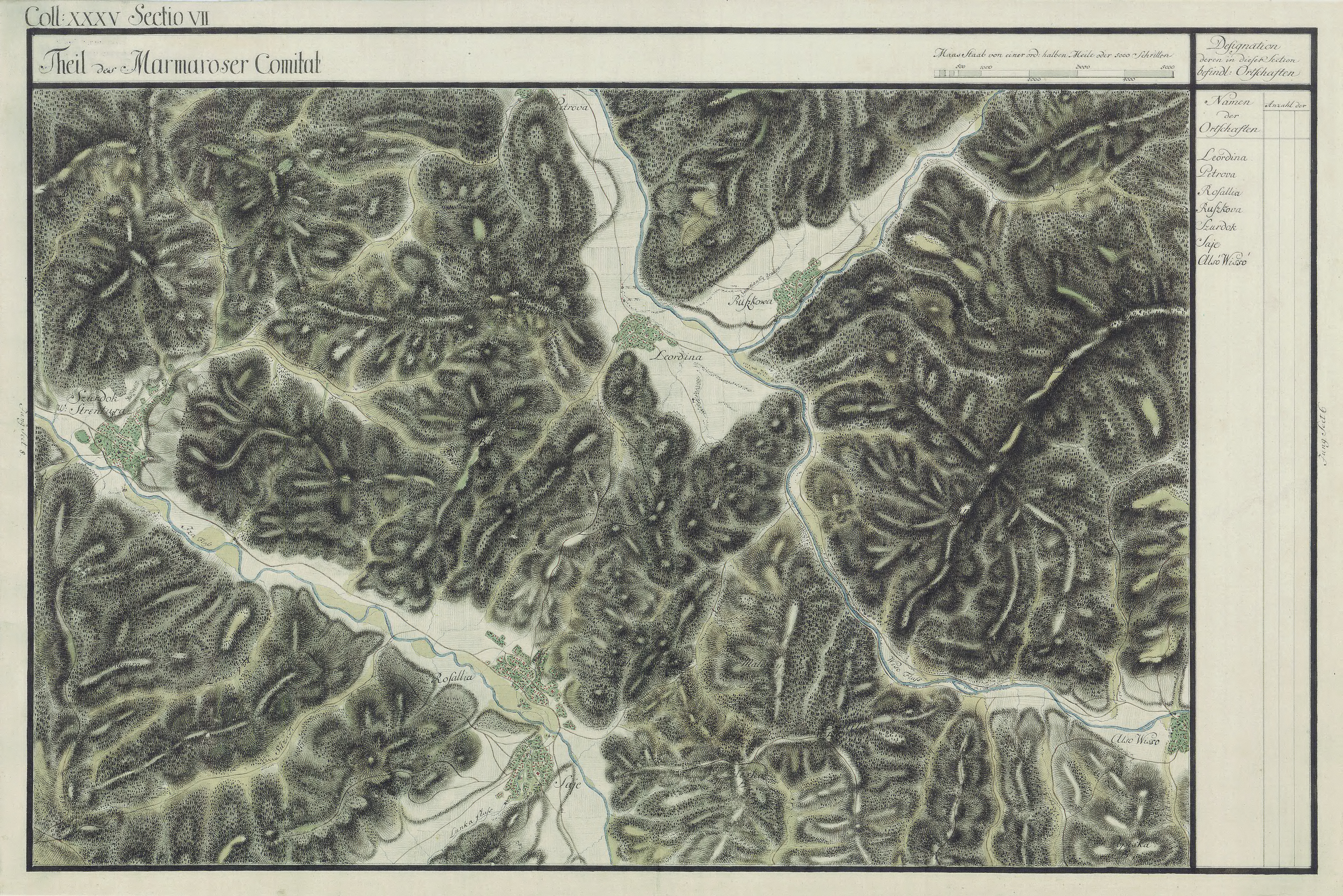 Maramureş County, 1769-1773. Josephinische Landesaufnahme pg.35-07